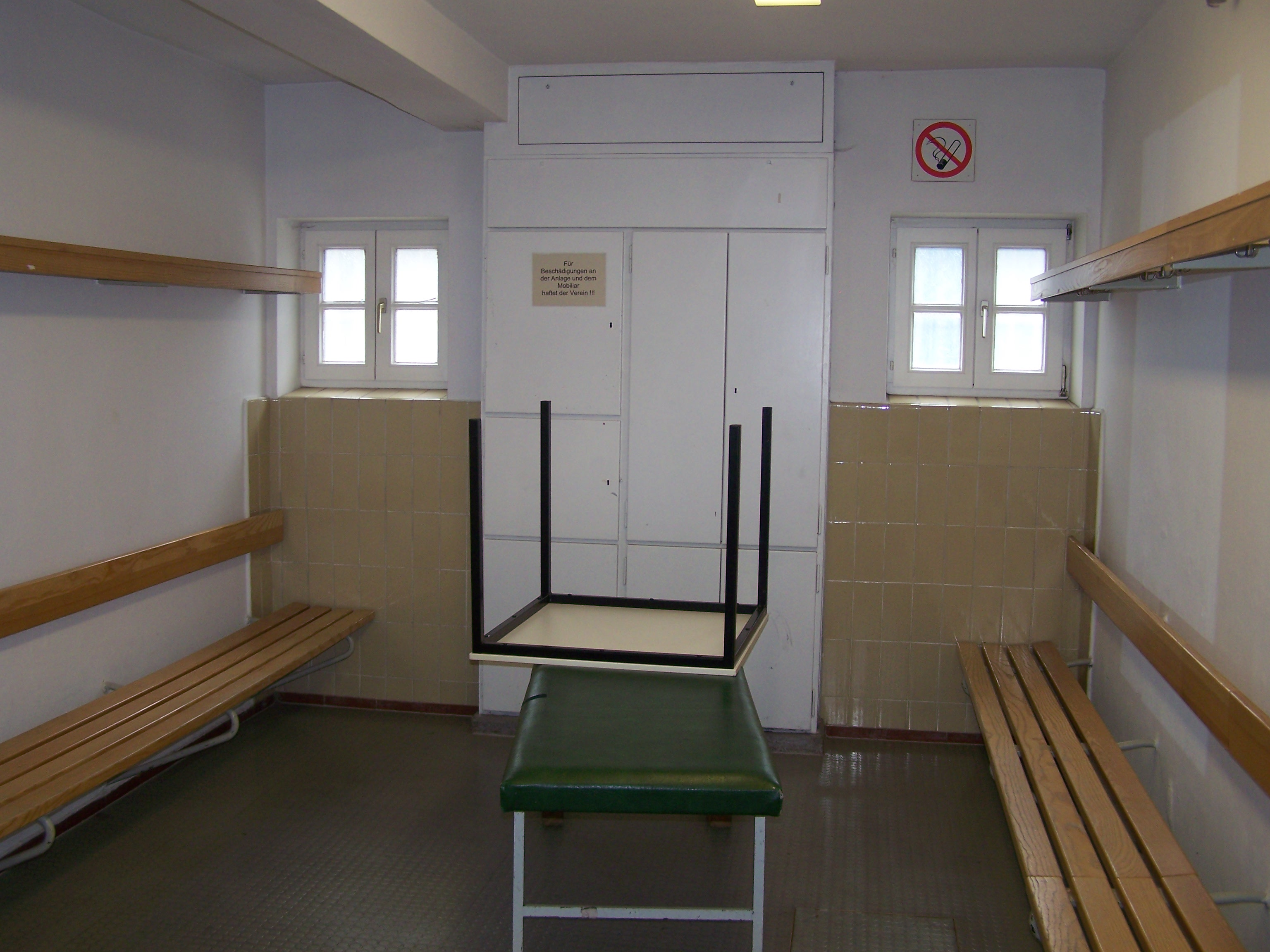 locker room in the "Stadion an der Grünwalder Straße" in Munich